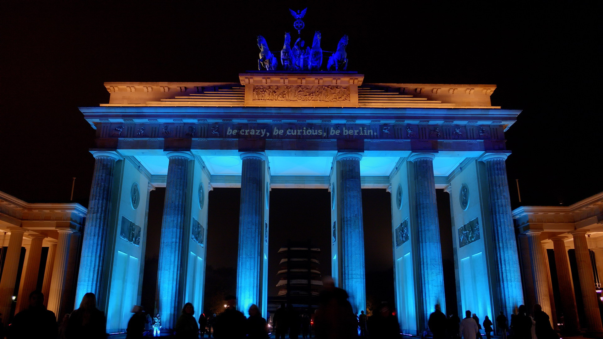 Brandenburg Gate in Berlin during the Festival of Lights.